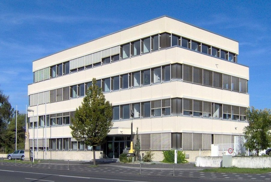 Former Ständige Vertretung, present seat of the Deutsche Gesellschaft für Ernährung in Bonn-Hochkreuz.